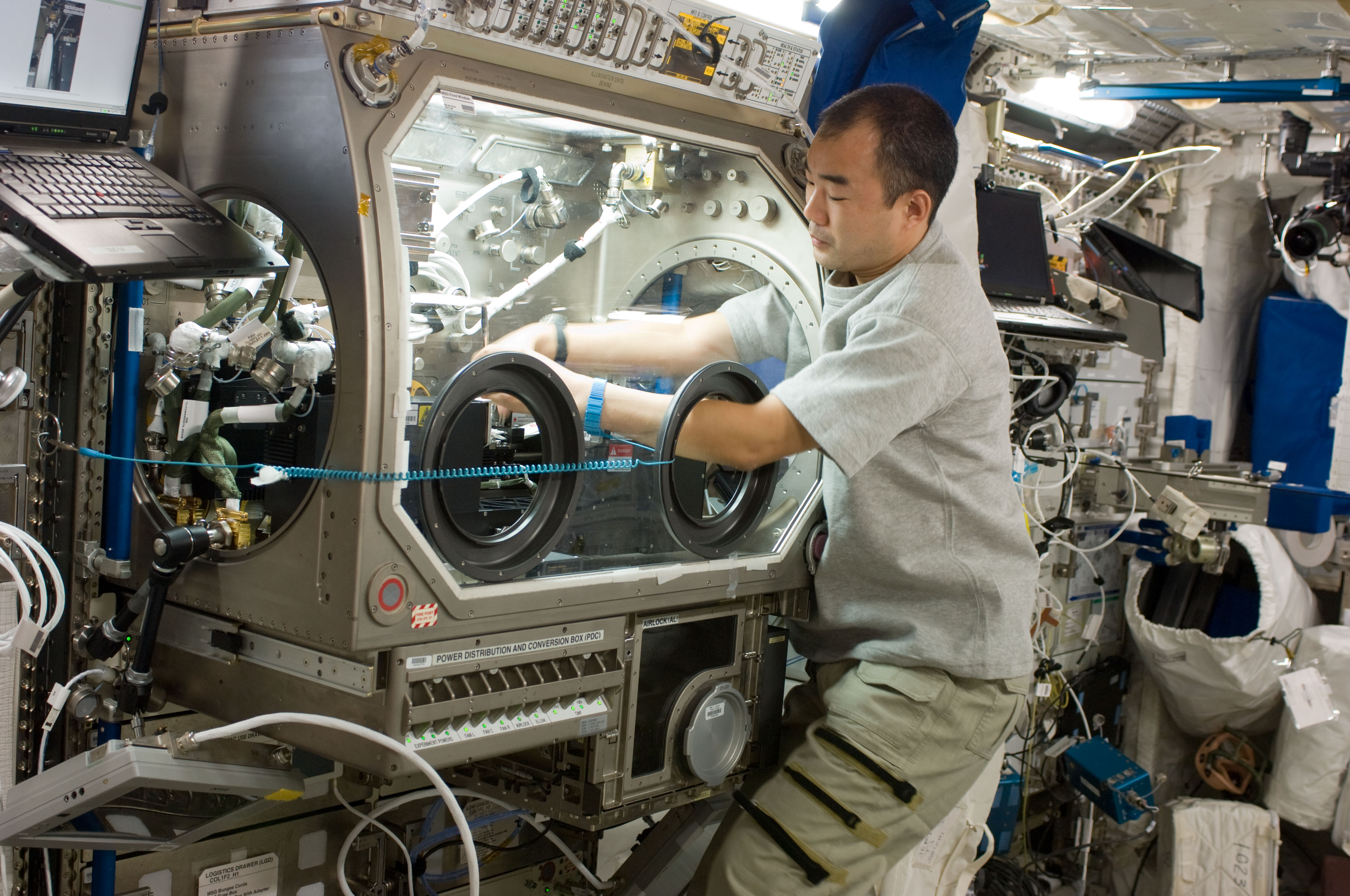 Japan Aerospace Exploration Agency (JAXA) astronaut Soichi Noguchi, Expedition 22 flight engineer, works with the European Space Agency (ESA) science payload Selectable Optical Diagnostics Instrument / Influence of Vibration on Diffusion in Liquids (SODI/IVIDIL) hardware in the Microgravity Science Glovebox (MSG) facility located in the Columbus laboratory of the International Space Station.